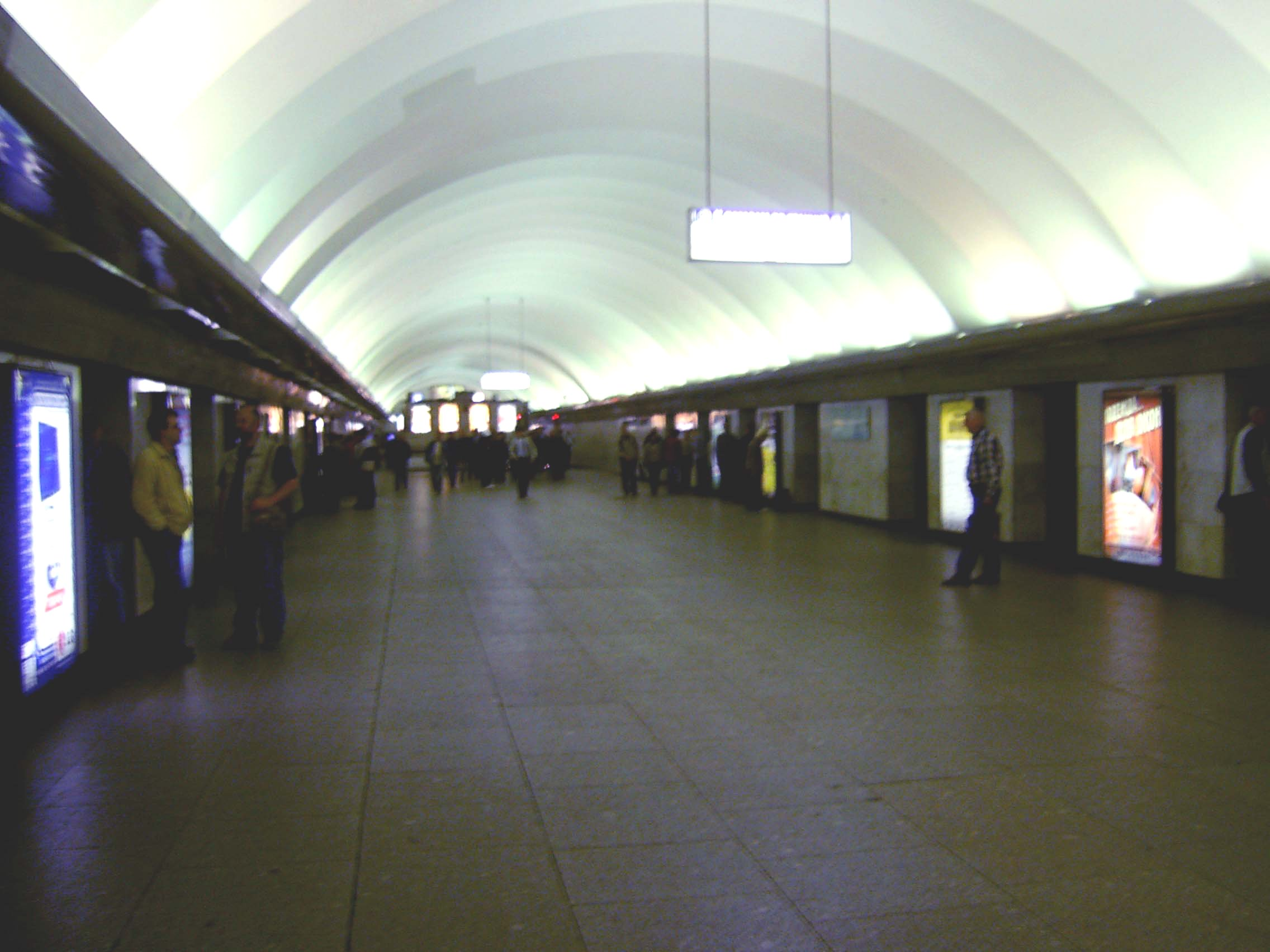 Metro station Gostiny Dvor in S-Petersburg